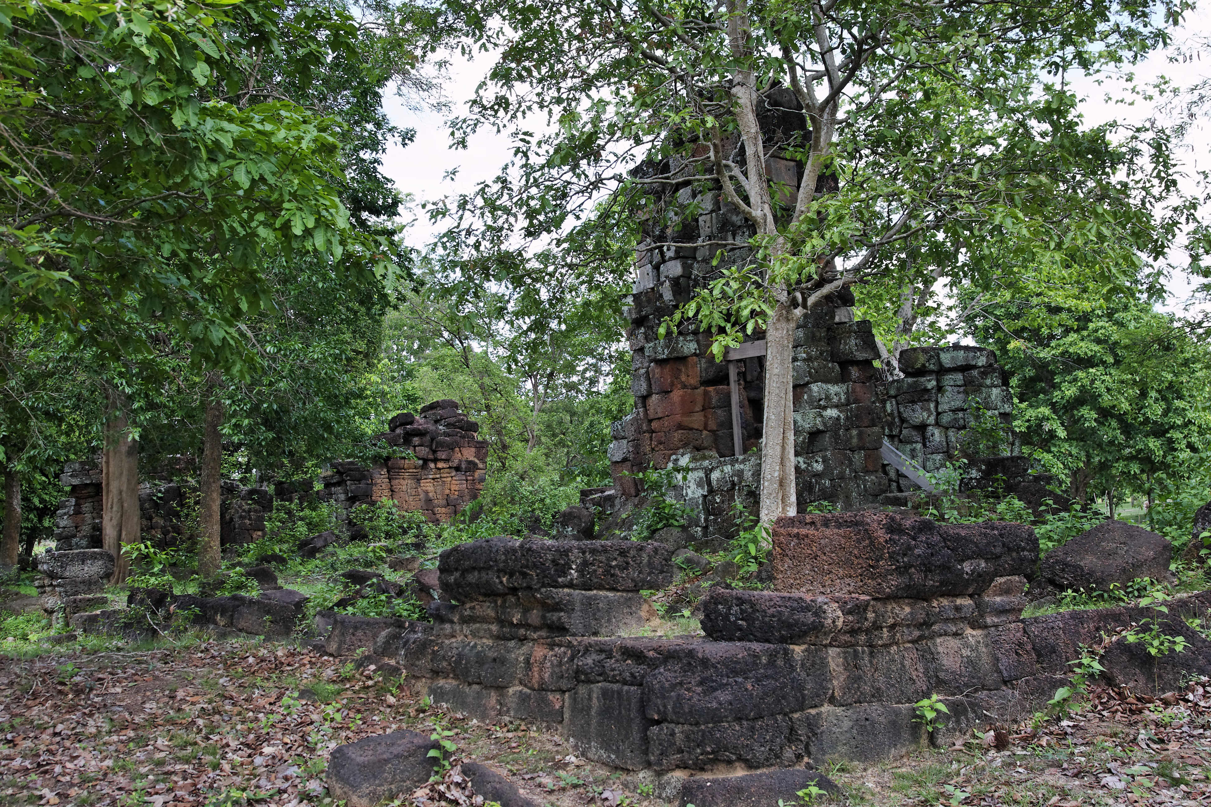 Prasat Muen Chai, Thailand Ido: Prasat Muen Chai, Thaïlande